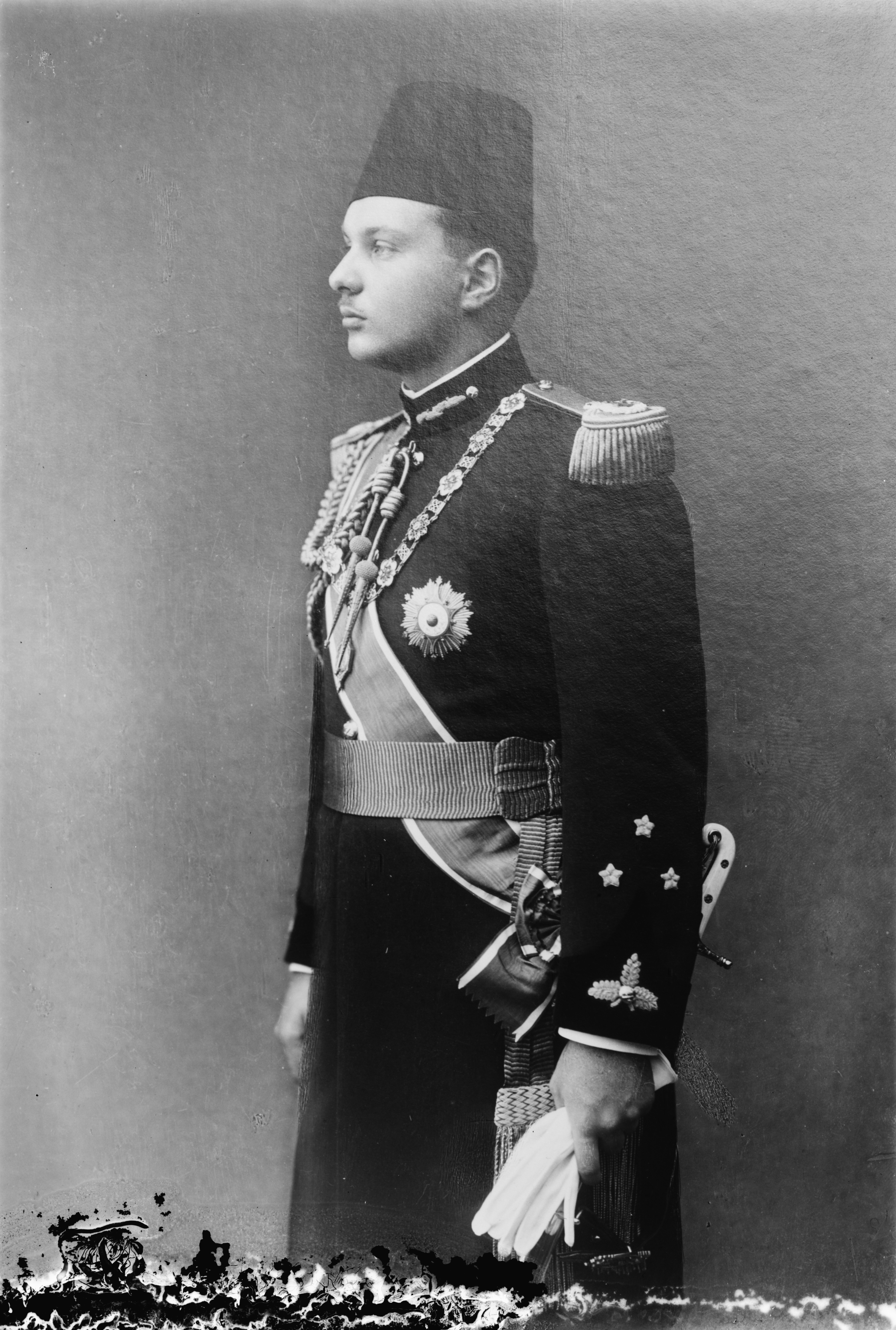 King Farouk I of Egypt in military uniform displaying several medals and decorations.